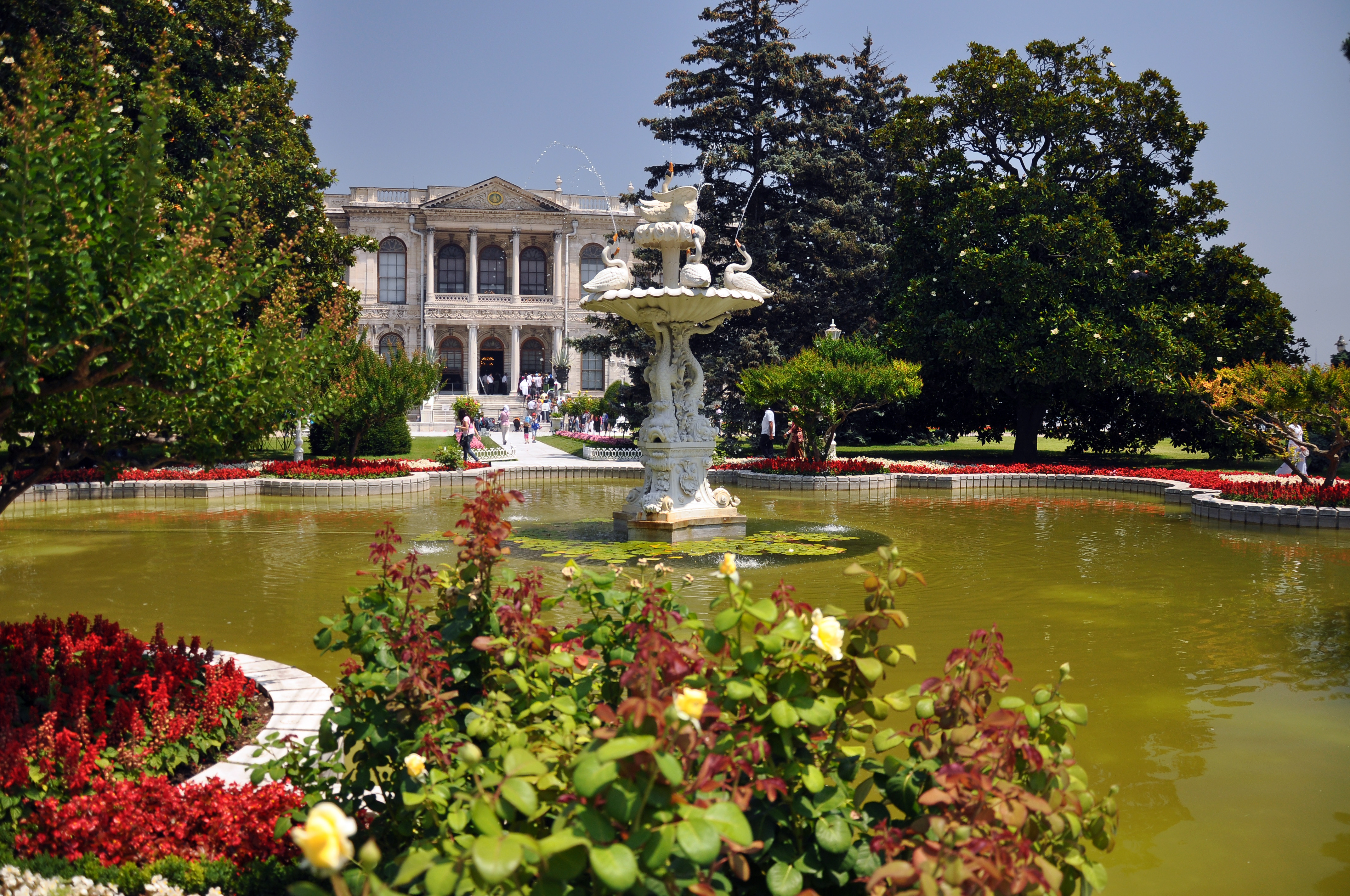 Swan's fountain at the garden of Dolmabahçe Palace in Istanbul, Turkey.